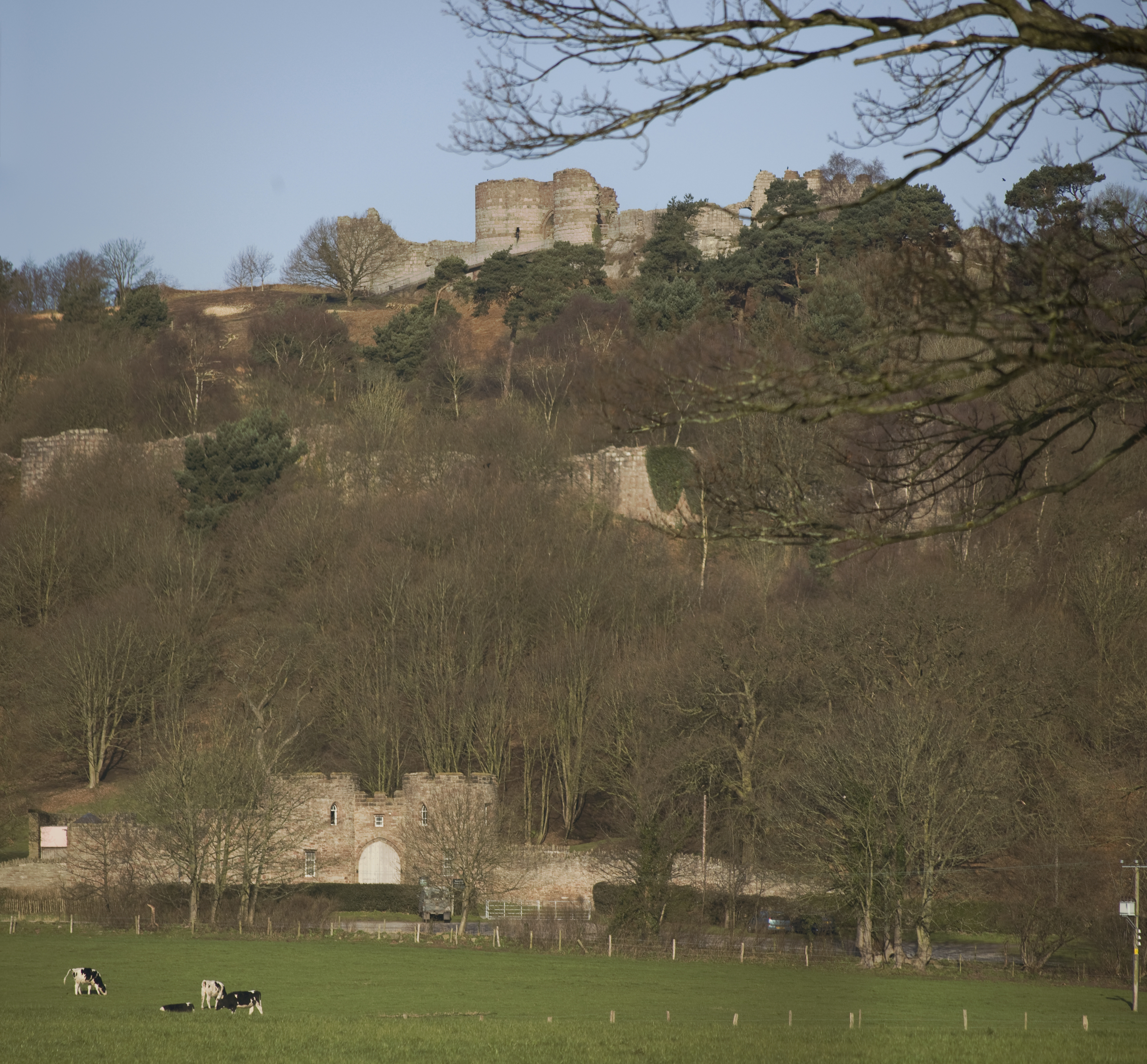 Beeston Castle, viewed from the east.